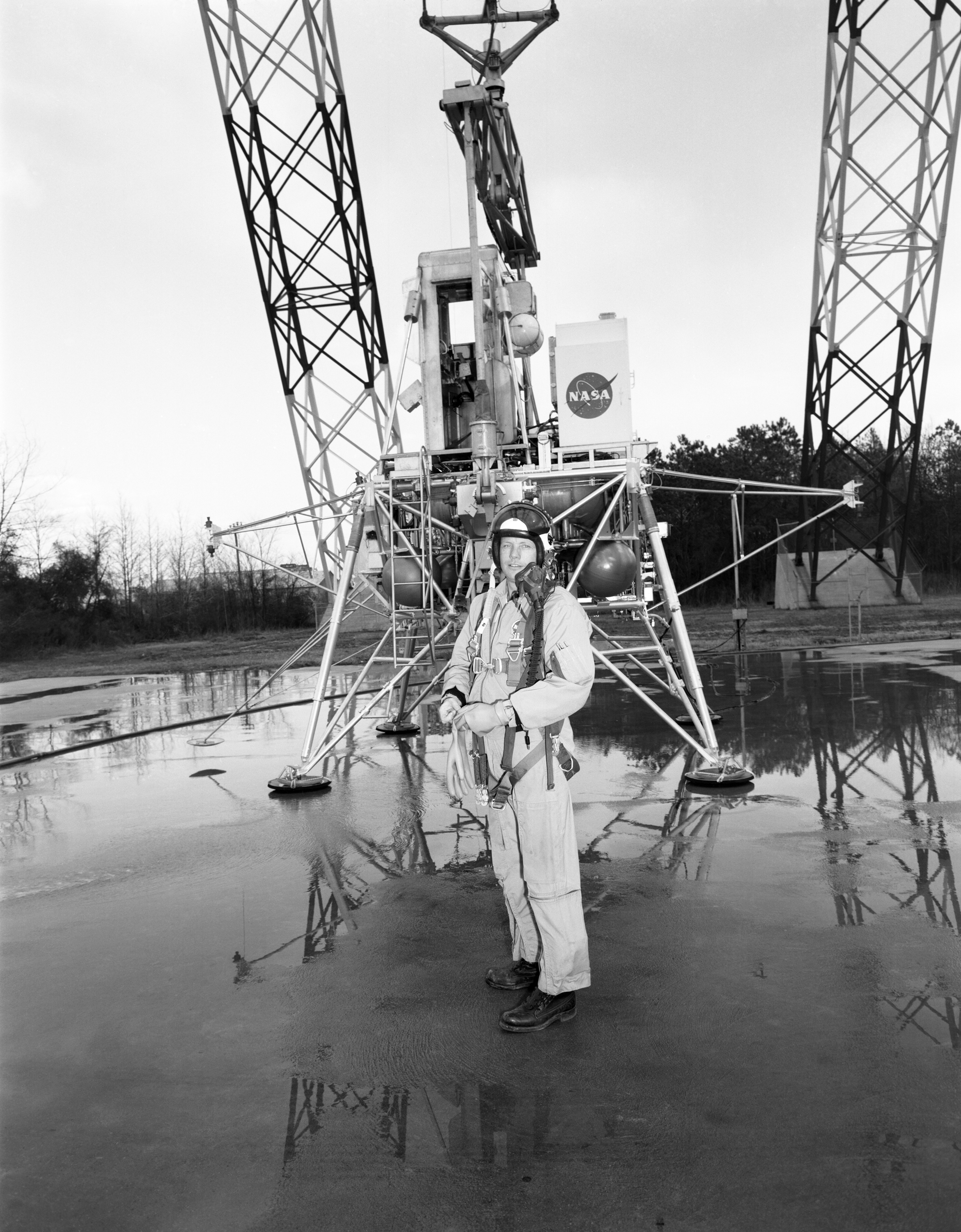 Neil Armstrong at the Lunar Landing Research Facility (LLRF).